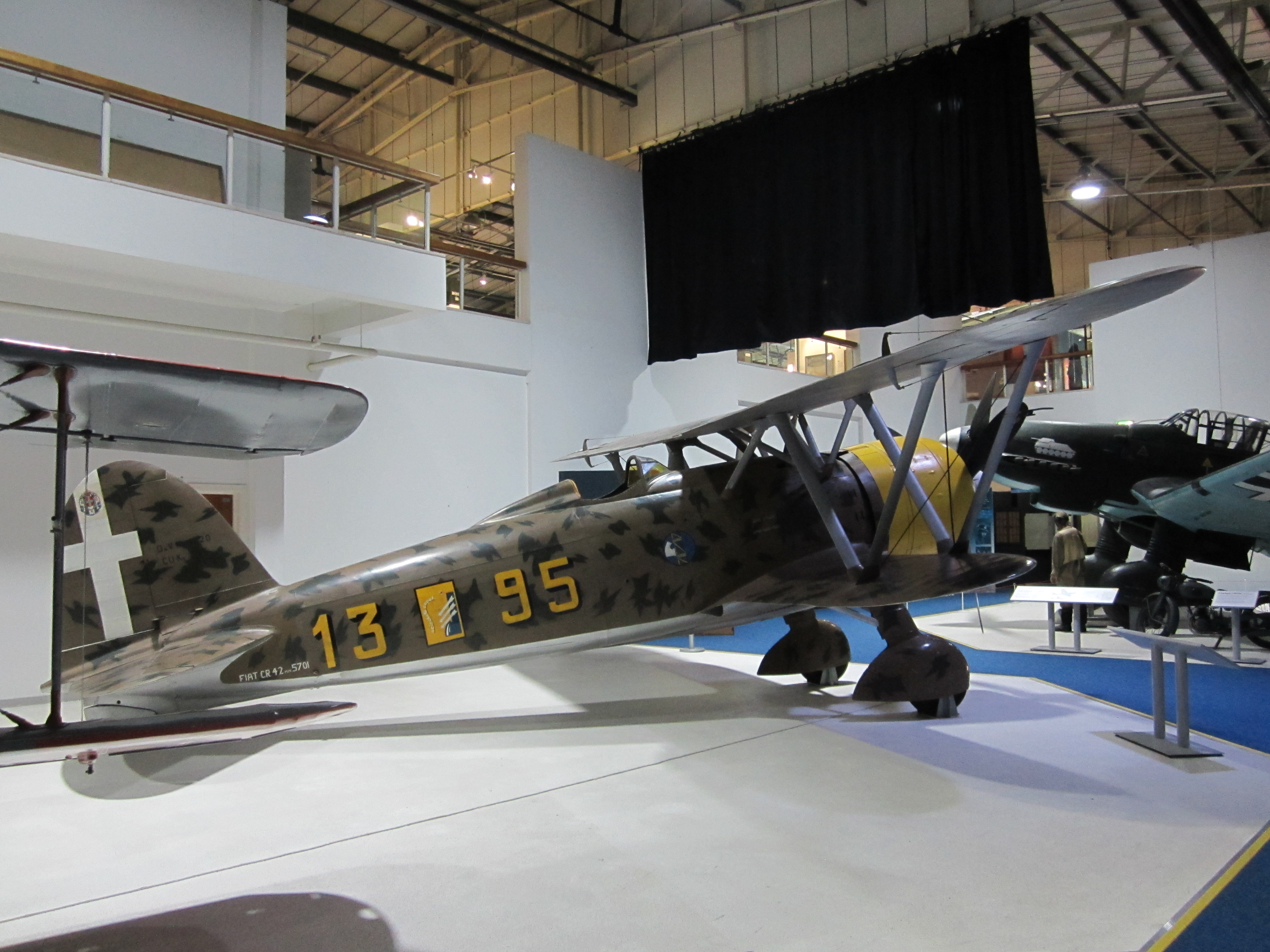 A Fiat CR.42 Falco on display at RAF Museum London in November 2011